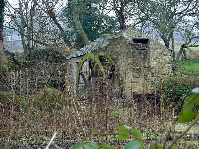 Ridley Mill This is all that remains of Ridley Mill with its 16ft.waterwheel.